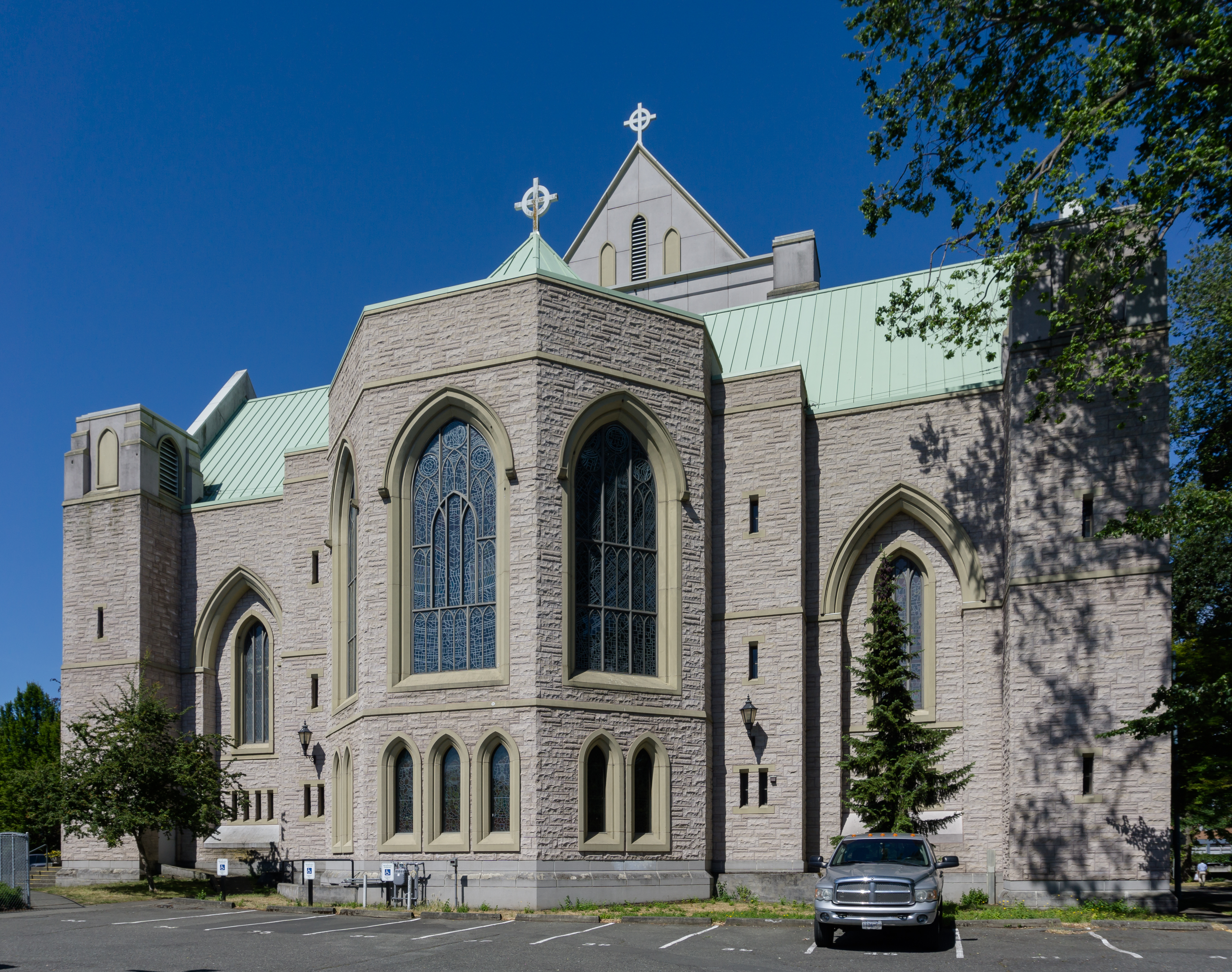 Christ Church Cathedral from the back, Victoria, British Columbia, Canada